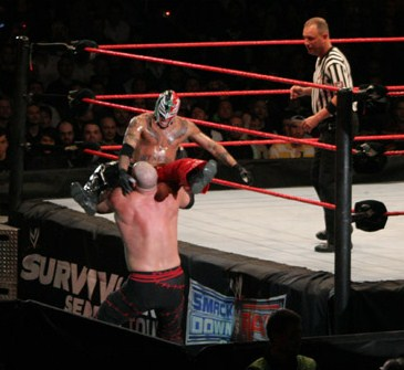 Rey flying in Milan,Italy